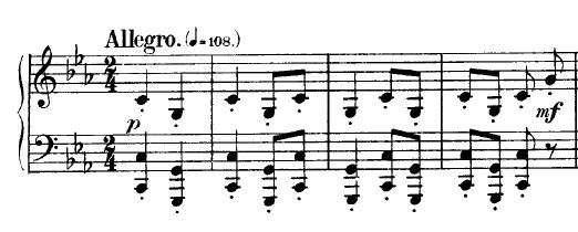 Rondeau C minor op. 1 - F. Chopin